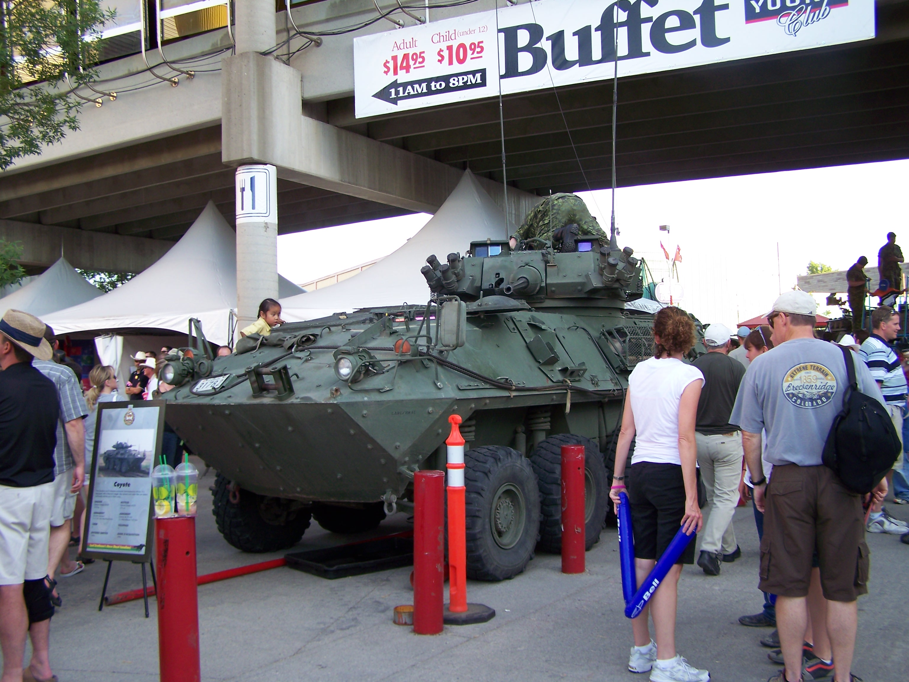 Canadian Light Armored Vehicle at the Calgary Stampede, 2007 -- Part of the Canadian Forces presence at the 2007 Calgary Stampede.